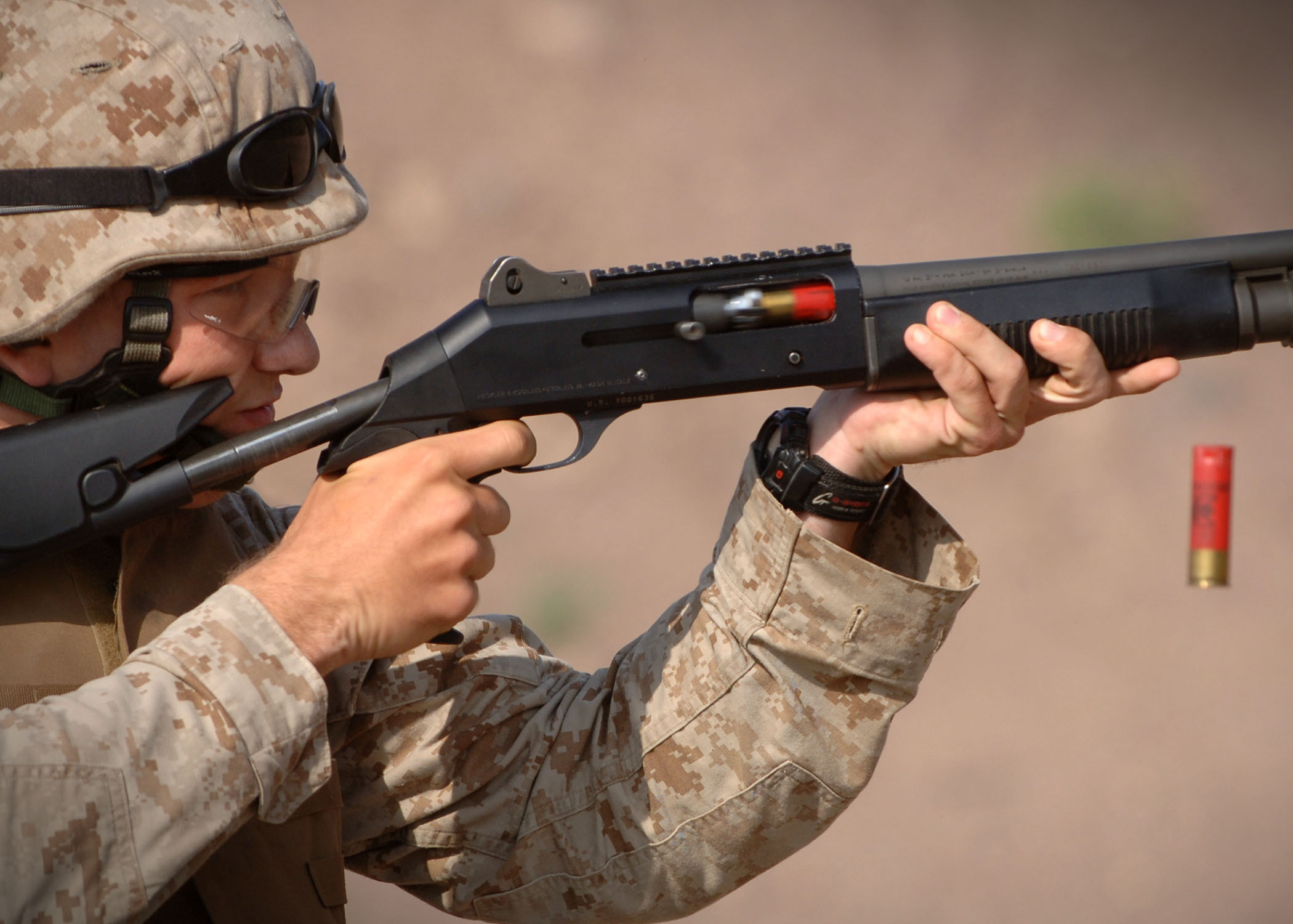 From image page: "U.S. Marine Corps Lance Cpl. Bennett Yuro fires a 12-gauge shotgun during training in Arta, Djibouti, Dec. 23, 2006. Yuro is assigned to the 5th Provisional Security Company. (U.S. Navy photo by Chief Mass Communication Specialist Eric A. Clement)